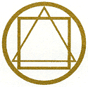 Symbol of the Lectorium Rosicrucianum.